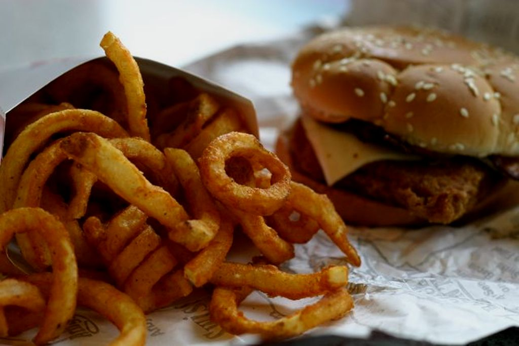 Title "fast food is the best!"fast food is the best!